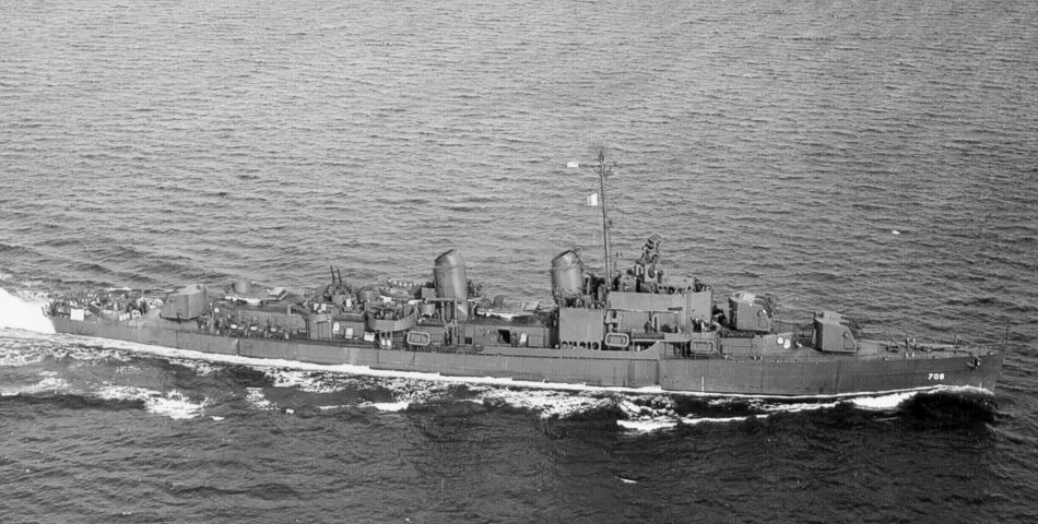 The U.S. Navy destroyer USS Harlan R. Dickson (DD-708) underway in 1945.